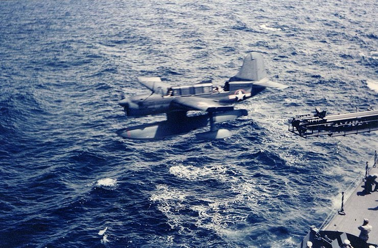 The U.S. Navy Cleveland-class light cruiser USS Biloxi (CL-80) catapults a Curtiss SO3C-3 Seamew floatplane, during her shakedown period, circa October 1943. Note the plane's national insignia, with the red surround briefly used in mid-1943.